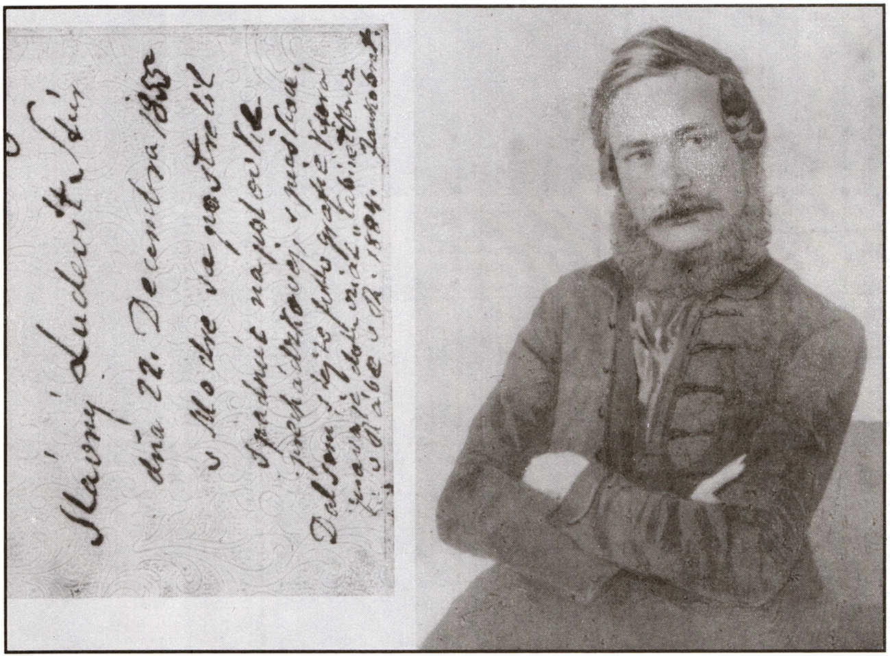 Janko Štúr: Sad notice about the death of Ľudovít Štúr and his portrait